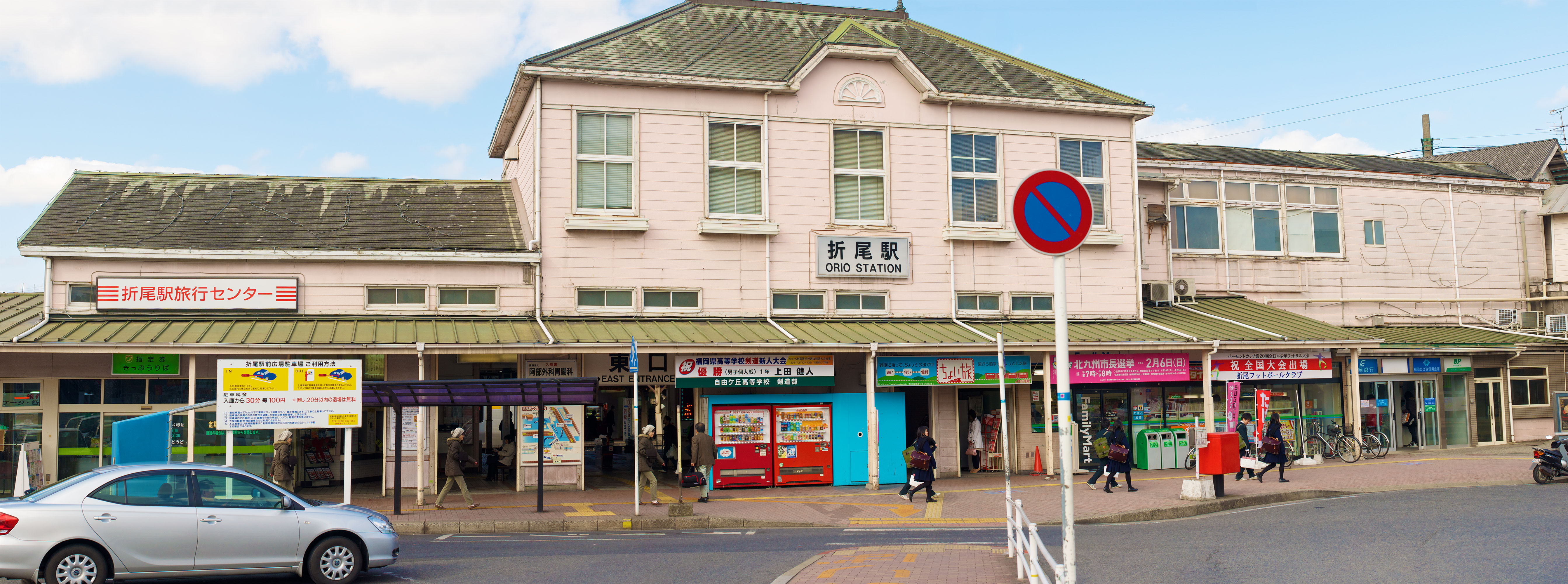 Orio Station